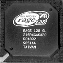 ATI Rage 128 chip photo